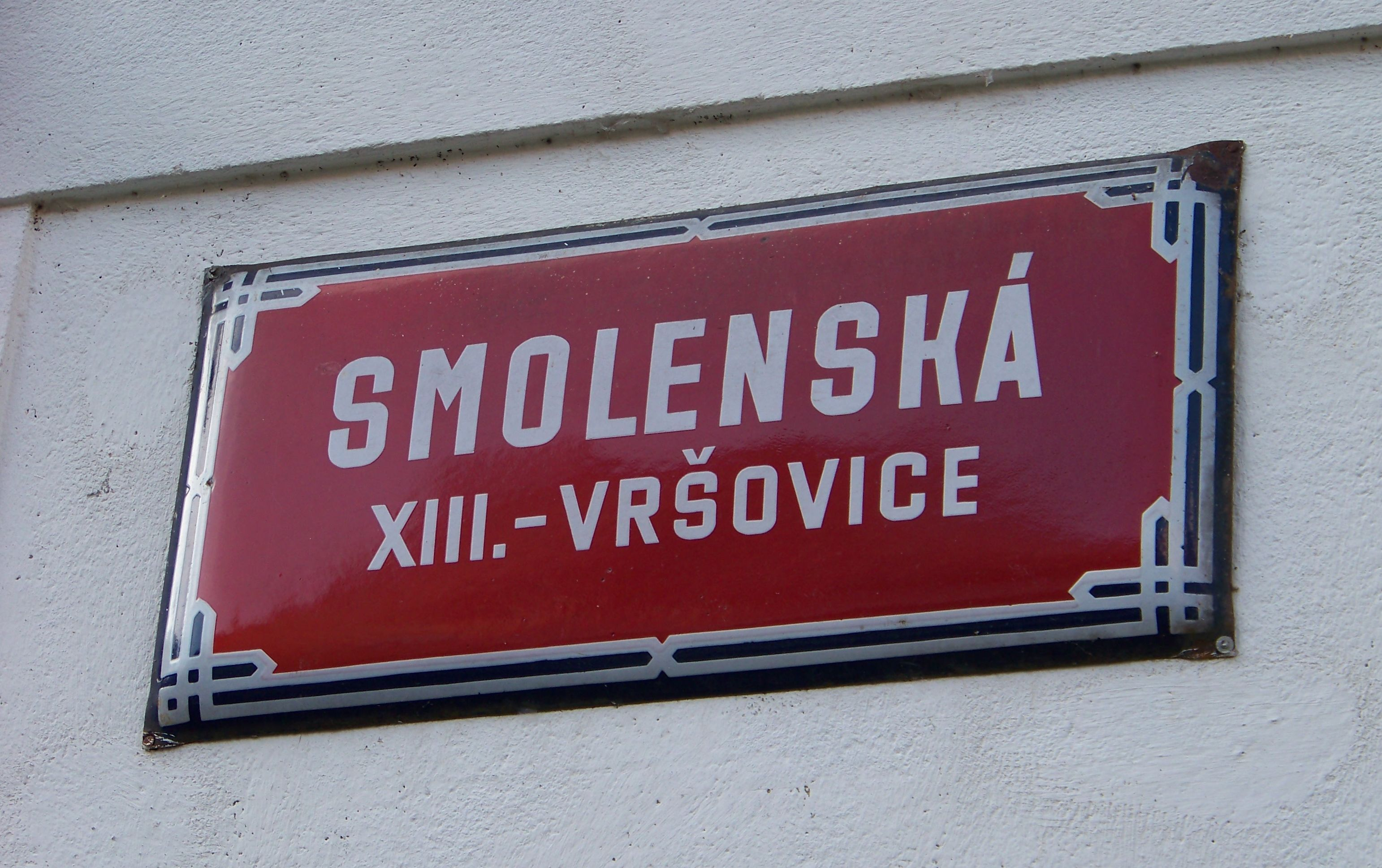 Prague-Vršovice, the Czech Republic. Smolenská 94/7, an old street sign.